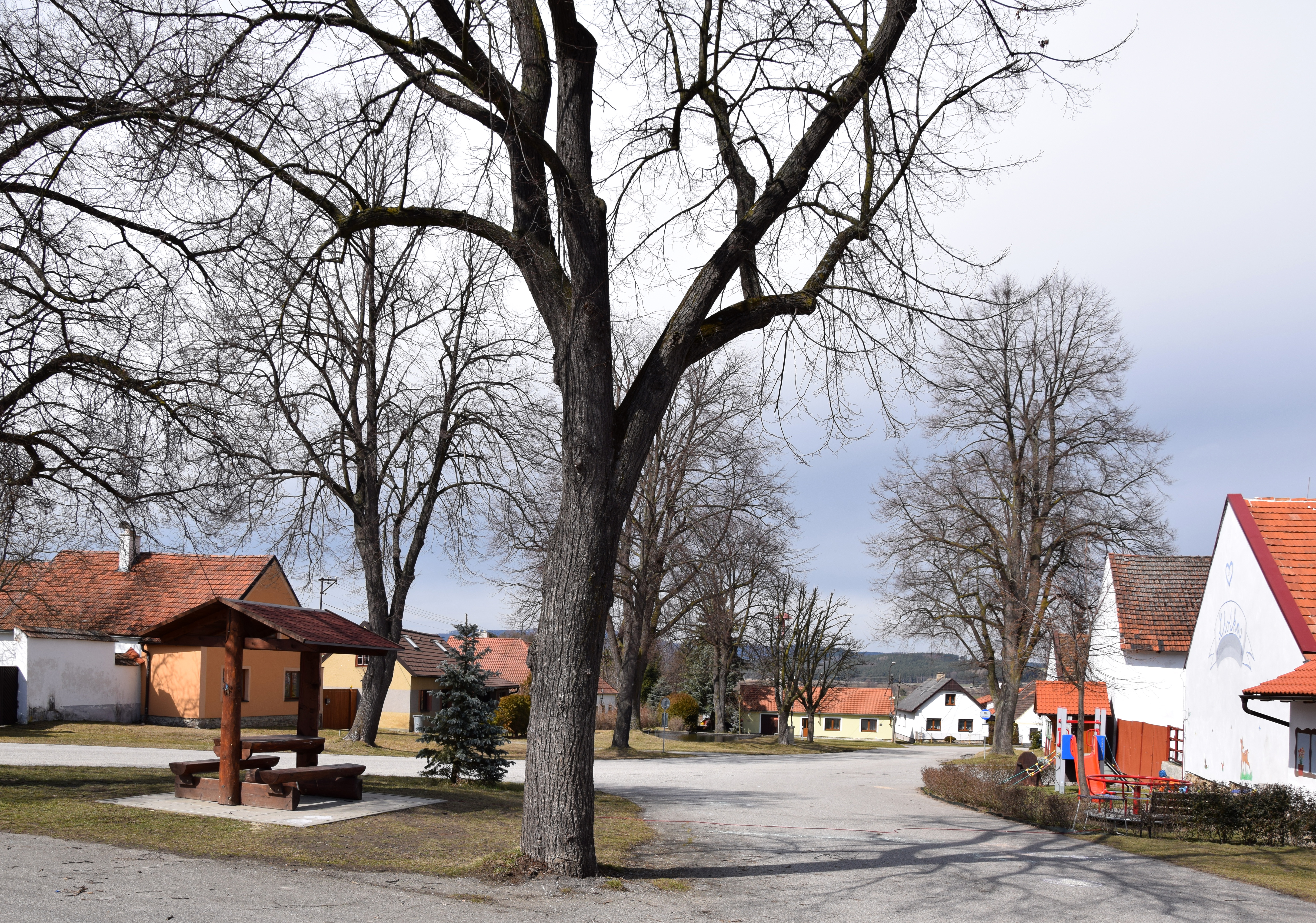 Village square in Lhotka (Křemže).